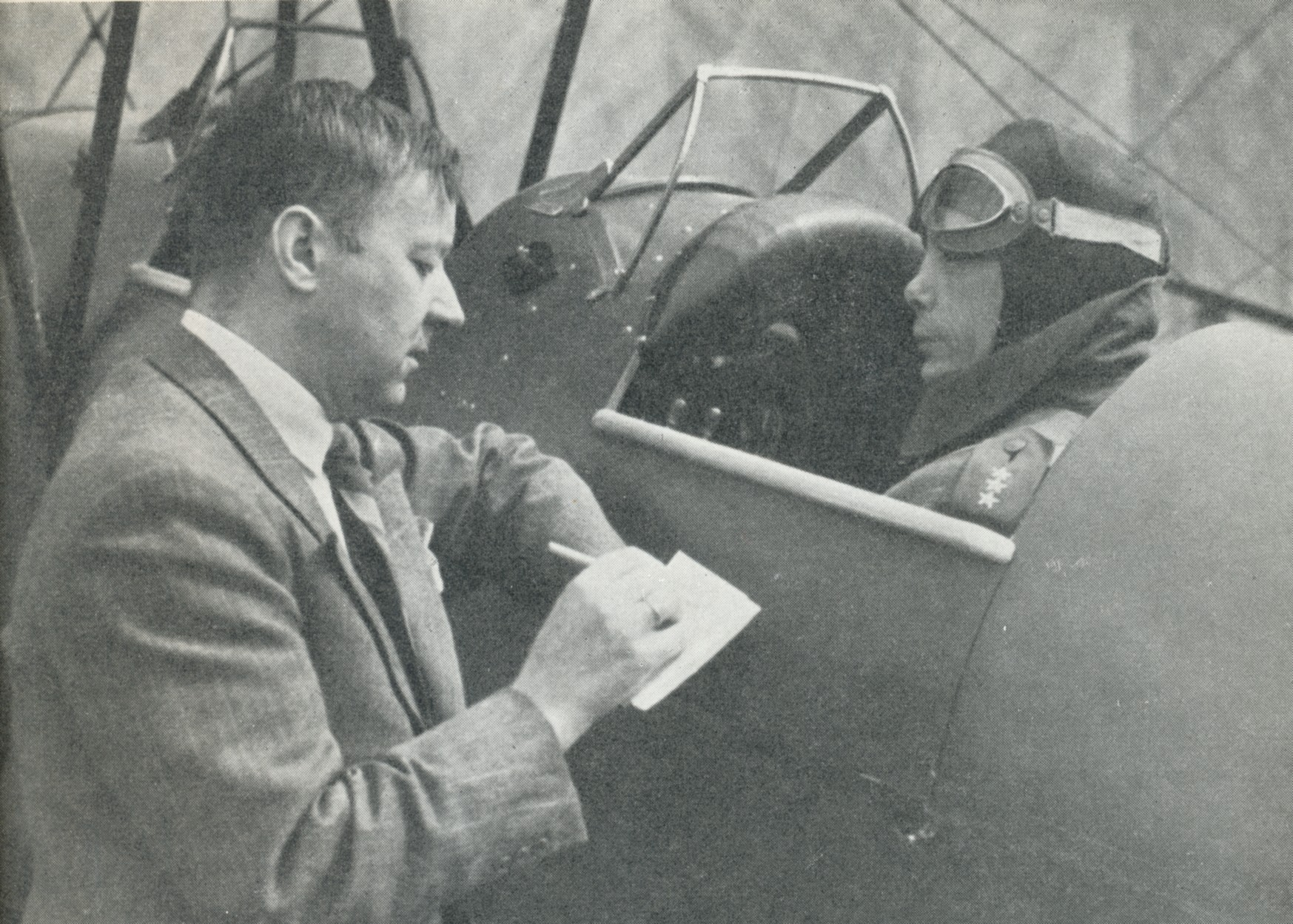 Aftenposten aviation journalist Odd Arnesen (1897-1946) interviewing rittmester Harald Normann (1893-1978). Prior to 1940